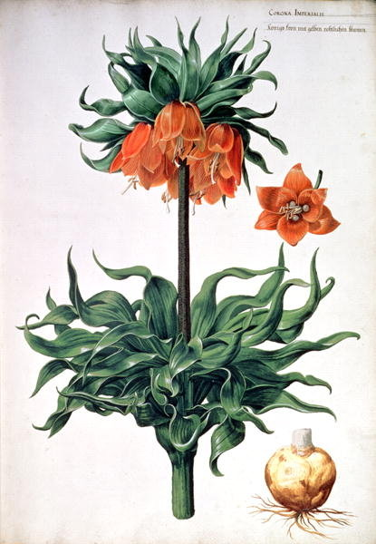 Illustration of Fritillaria imperialis